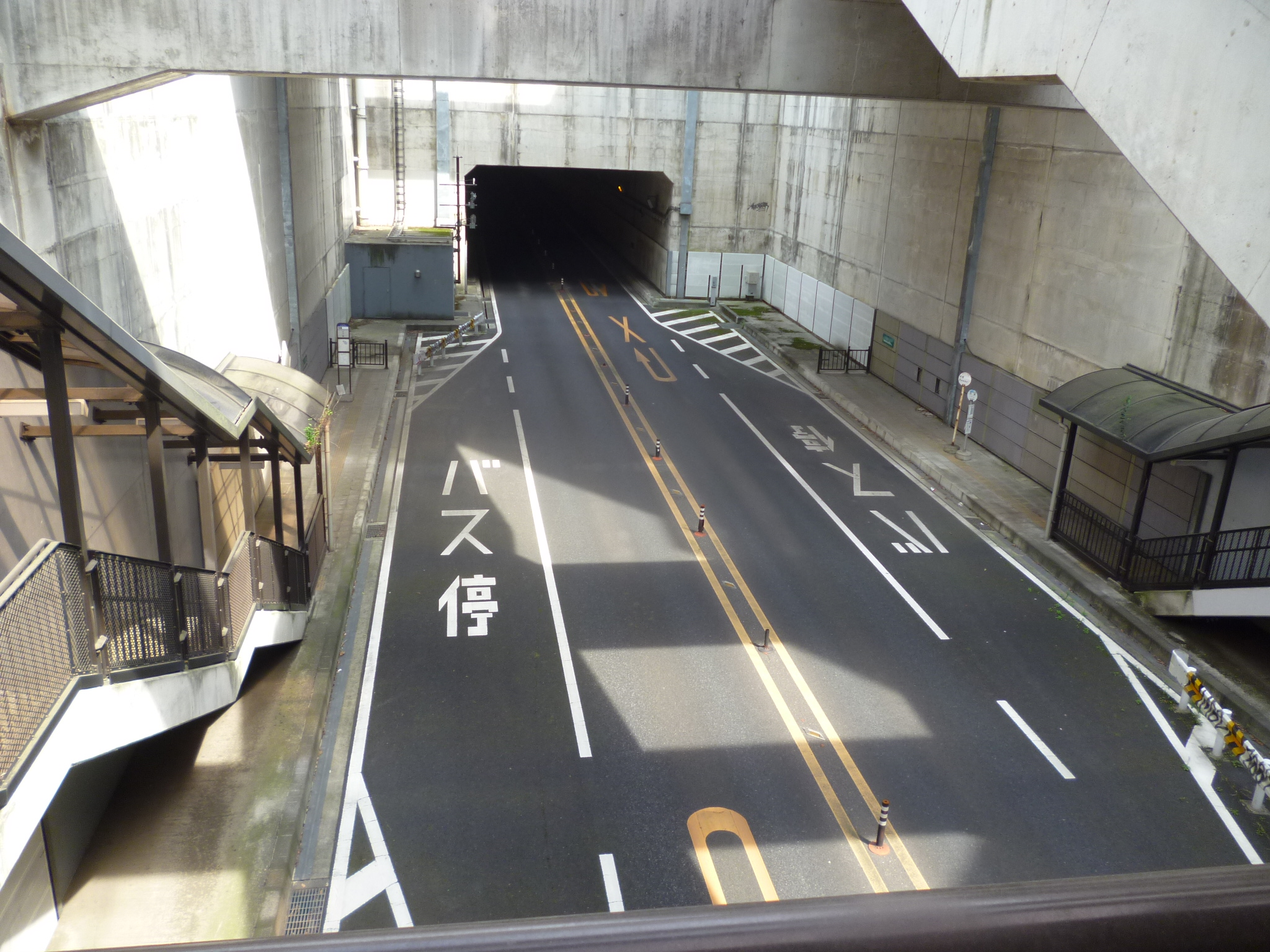 Azuma Bus Stop in the Tsukuba Hamamuro Tunnel in Tsukuba City, Ibaraki Prefecture, Japan